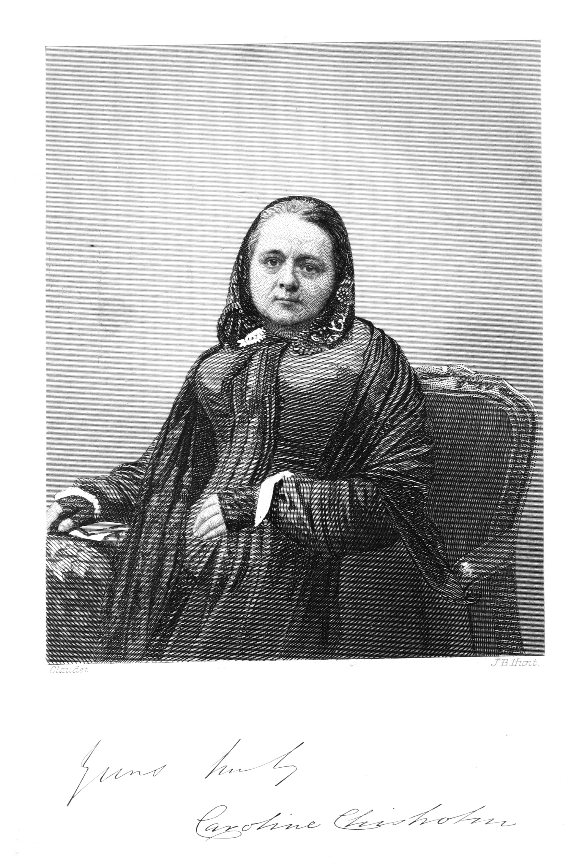 Portrait of Caroline Chisholm, engraved by J. B. Hunt after a daguerreotype by Antoine Claudet.